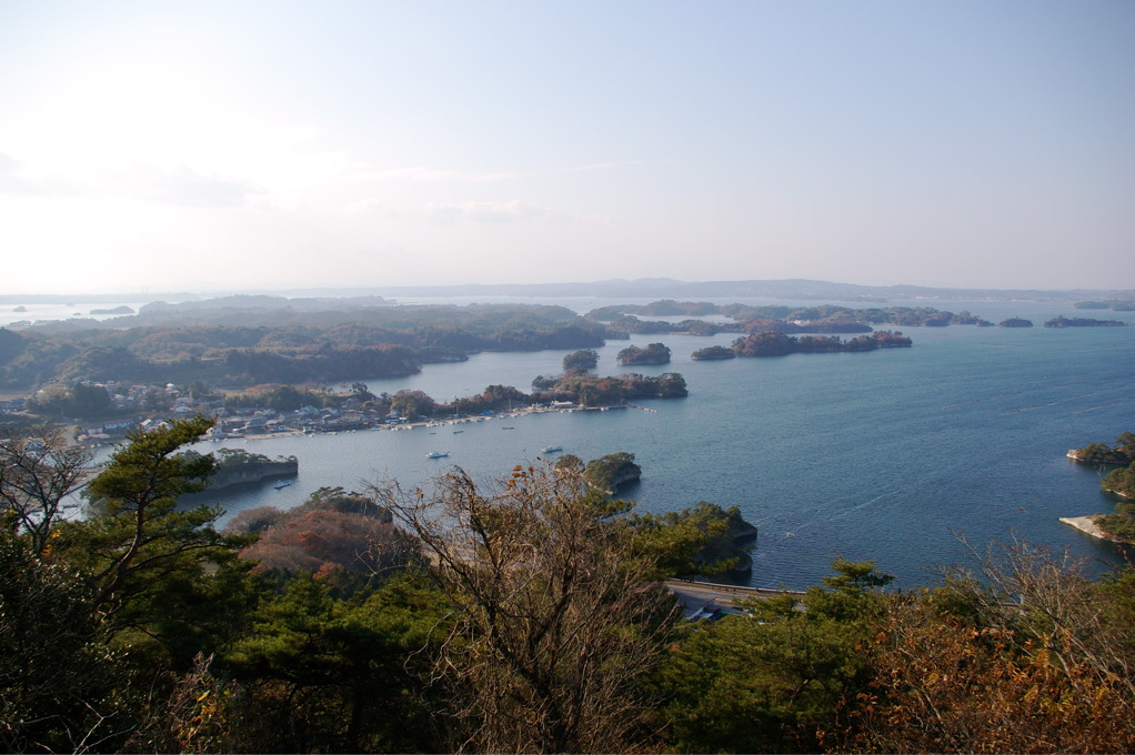 Matsushima from Otakamori, one of the four wonderful viewpoints, called "Soukan"